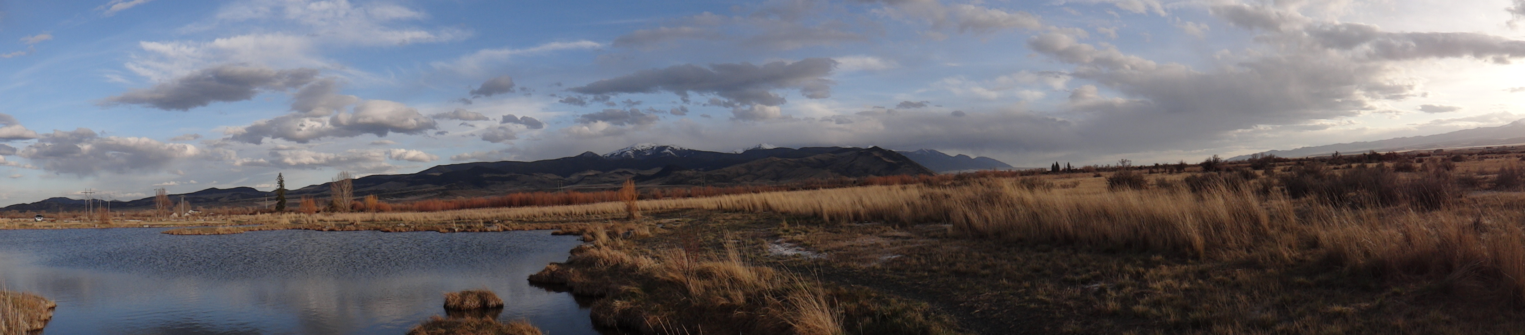 Panorama looking south